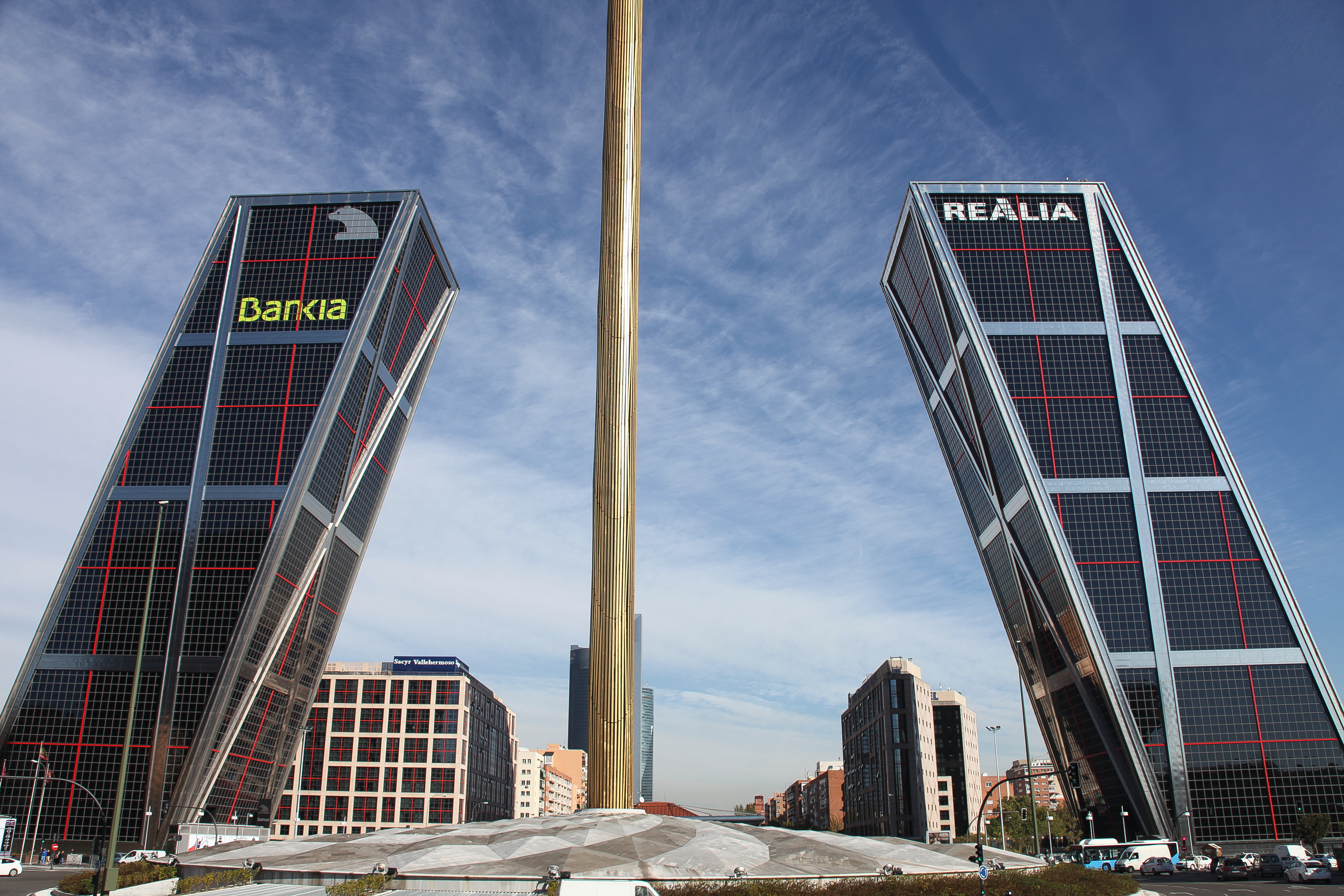 Two bank office-buildings, designed by Philip Johnson and John Burgee